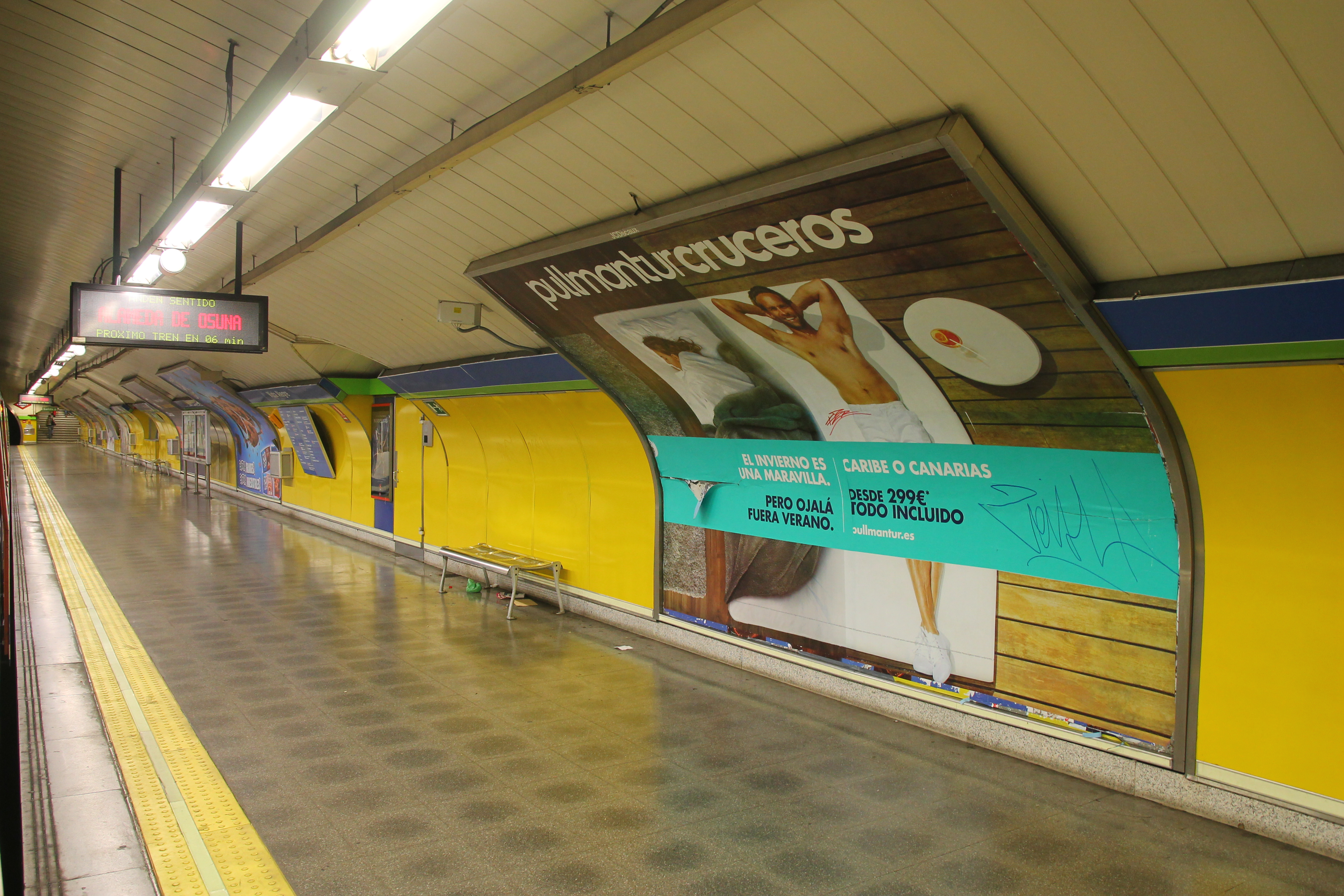 Estación de Vista Alegre